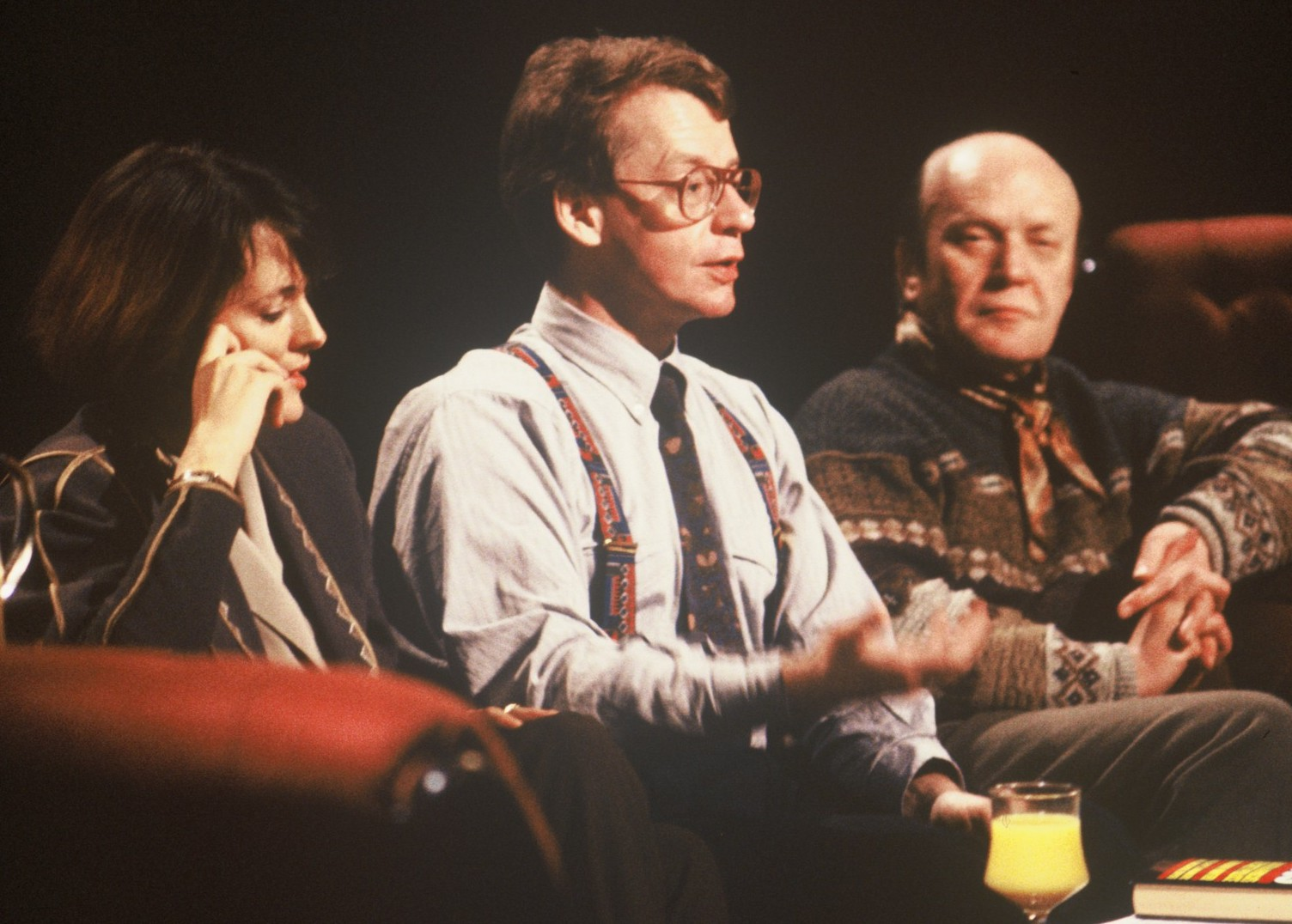 Duncan Campbell appearing on After Dark on 2 February 1991. Other guests included Jane Moore (left), Gordon Winter (right), Lord Lambton, Clare Short and Anthony Howard. More here.